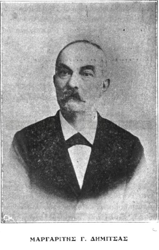 Portrait of Margaritis Dimitsas